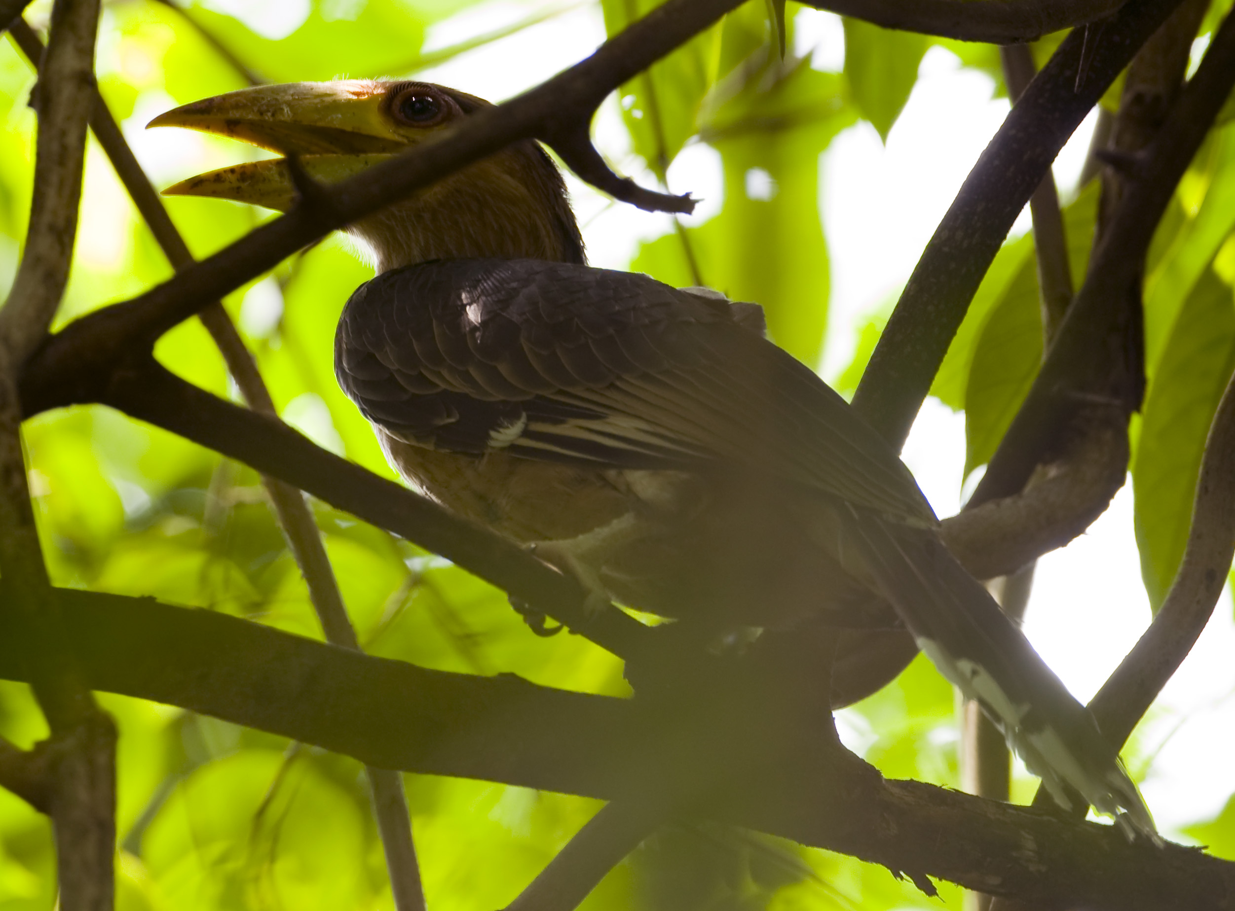 A young Tickell's Brown Hornbill (Anorrhinus tickelli) in a tree. Kaeng Krachan, Thailand. "This bird had fledged 3 mins before shot was taken - he got stuck in this tree whist his parents were giving words of encouragement. They were getting stressed so I left it at that."